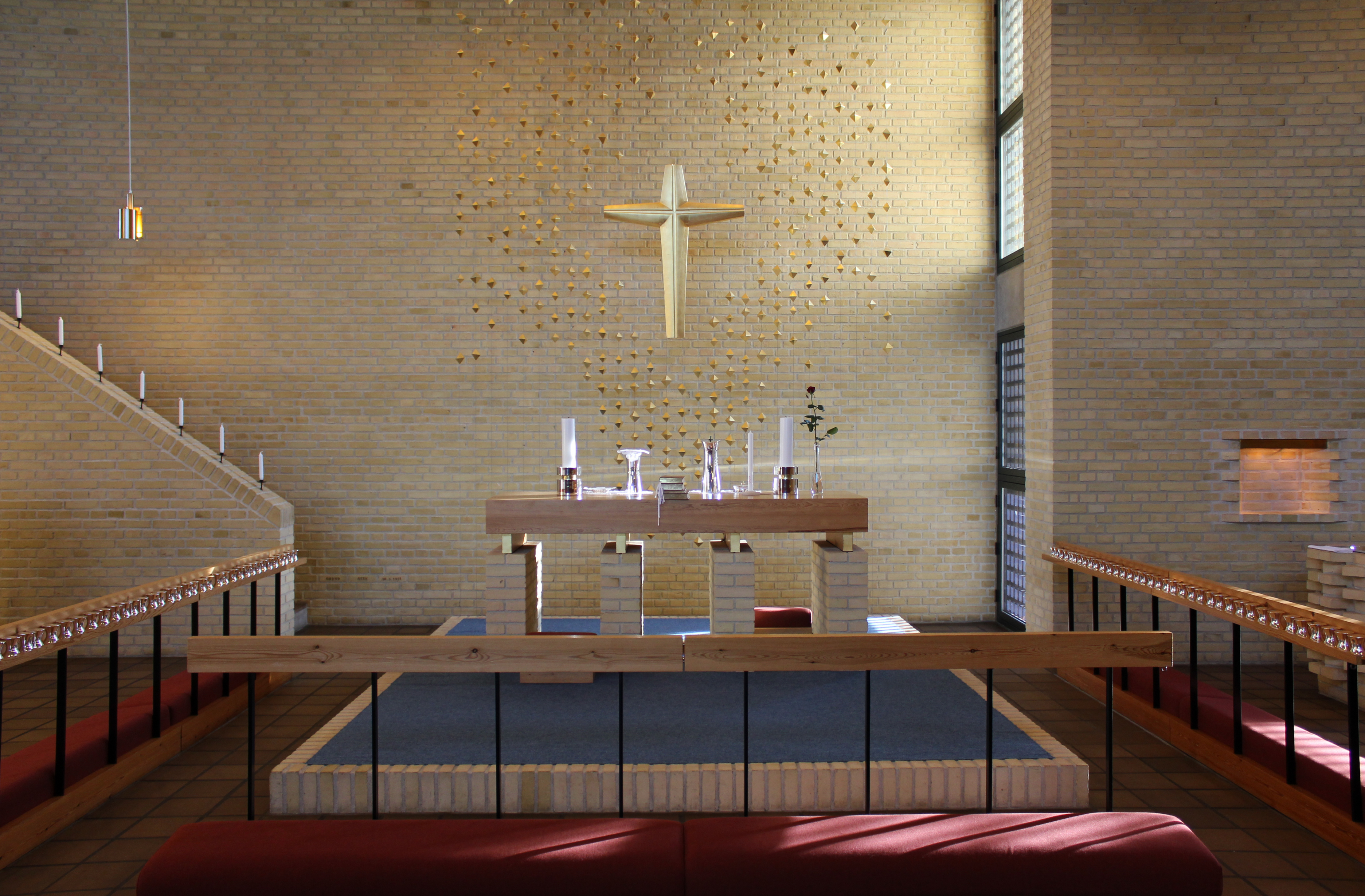 Simon Peters churchaltar as well as the baptismal basin is carried by brick, simple foundations. The baptismal basin,altar and the two large candlesticks is made of silver by jeweler Bent Gabrielsen, who also has designed and produced the alternative background in collaboration with the church's architect, Holger Jensen. It consists of a gilded, empty crosses surrounded by 350 "Prisms", made of wood and covered with gold. These "Prisms" give different lighting effects depending on the lighting, which penetrates through the tall windows beside the altar and the church room's rear. Altar service is made by silversmith Hjørdis Haugaard, Kolding. The altar is always adorned by a single red rose. Only through the holidays and special occasions supplemented this simple flower decoration with two flowers setups